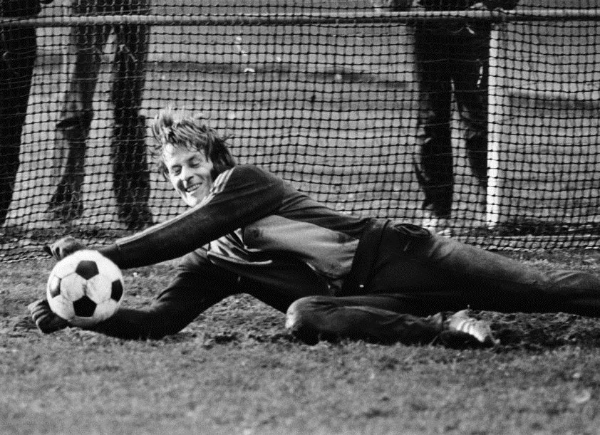 Ton van Engelen